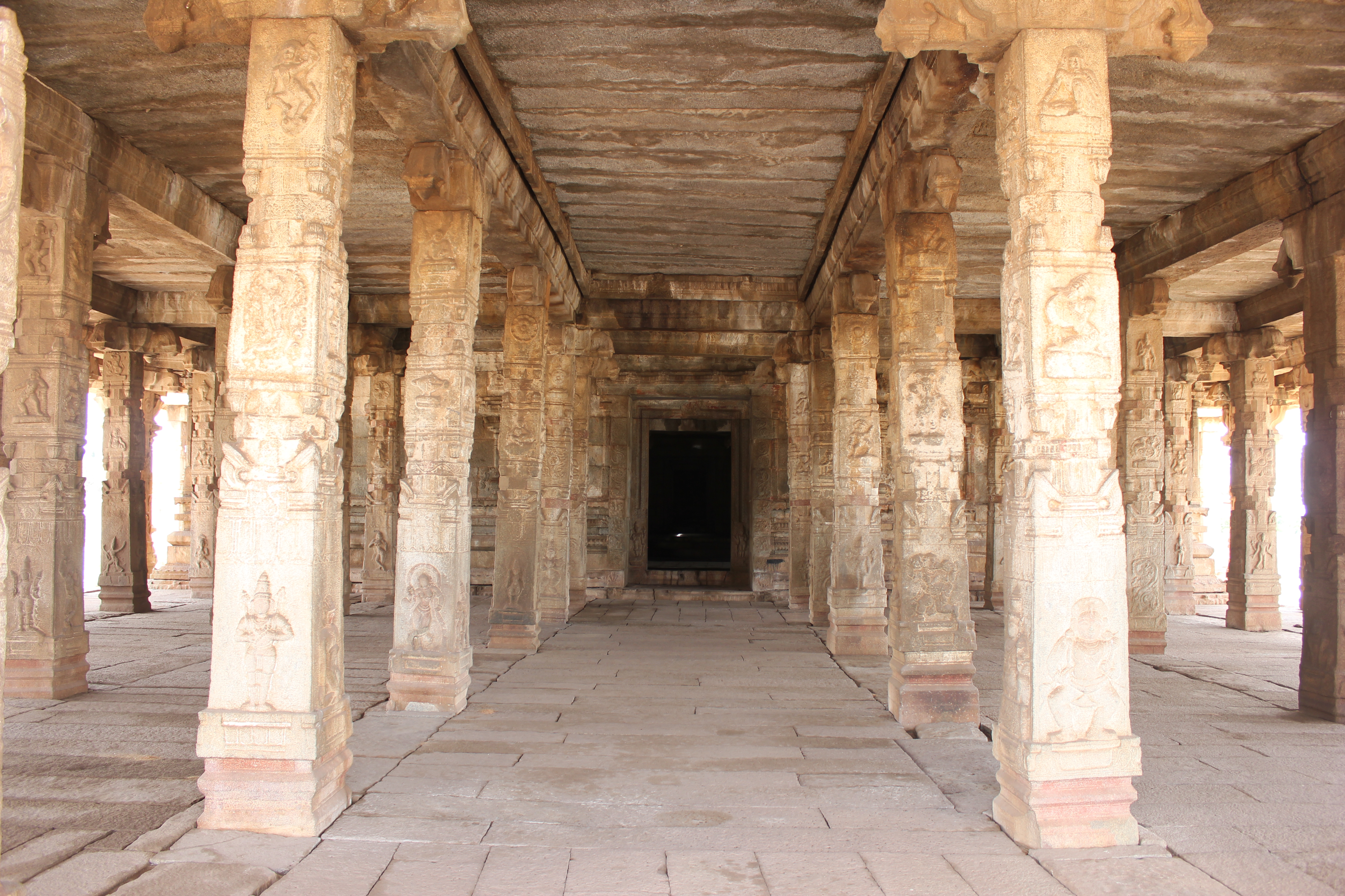 This photograph of a mantapa in the Pattabhirama temple was taken by me at Hampi, a UNESCO world heritage site in Bellary district, Karnataka state, India. The temple was constructed during the reign of King Achyuta Raya (1529-1546 AD) and was built in memory of his queen Varadarajamma.